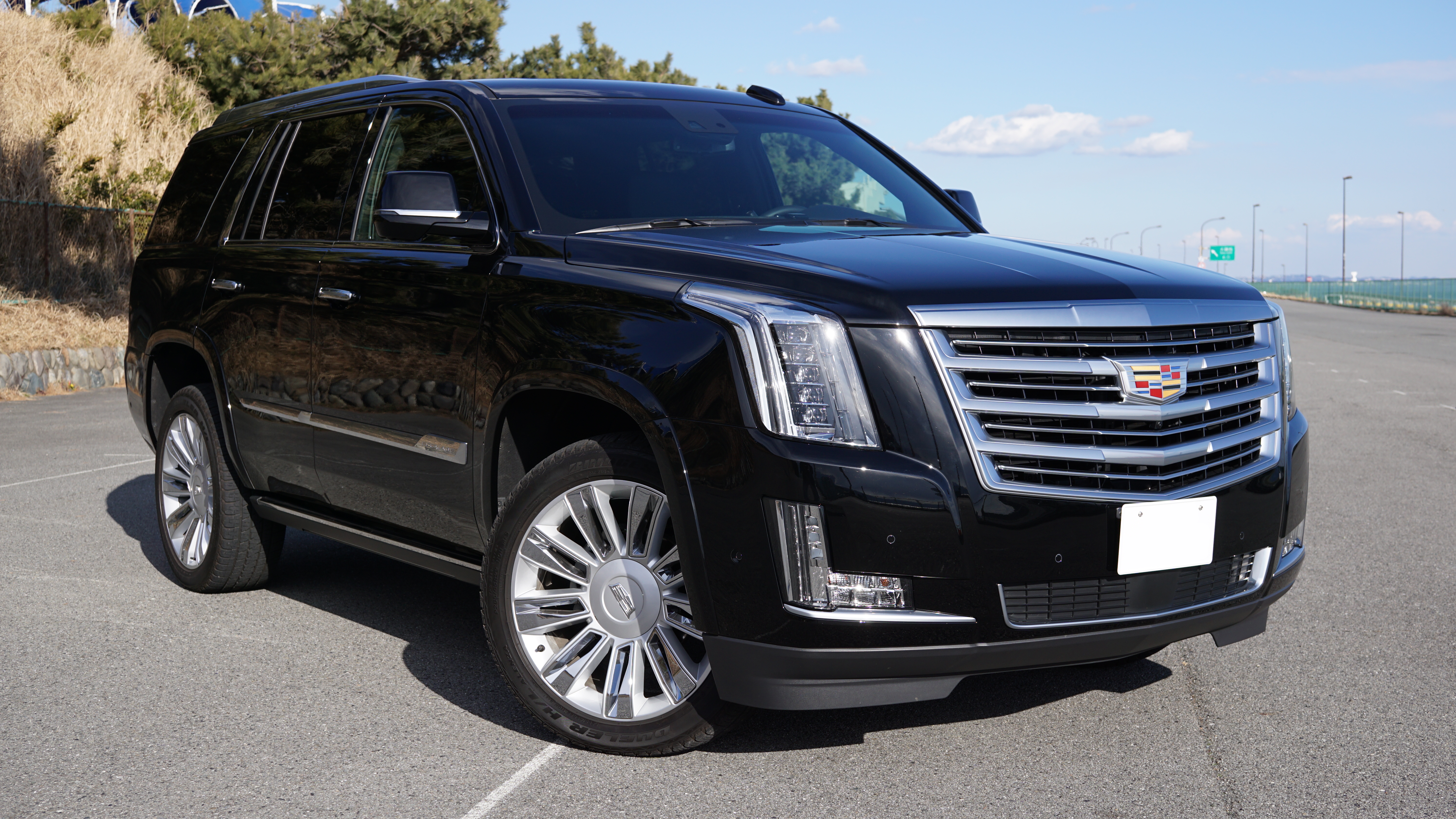 Front view of the Cadillac Escalade Platinum GMT K2XL.